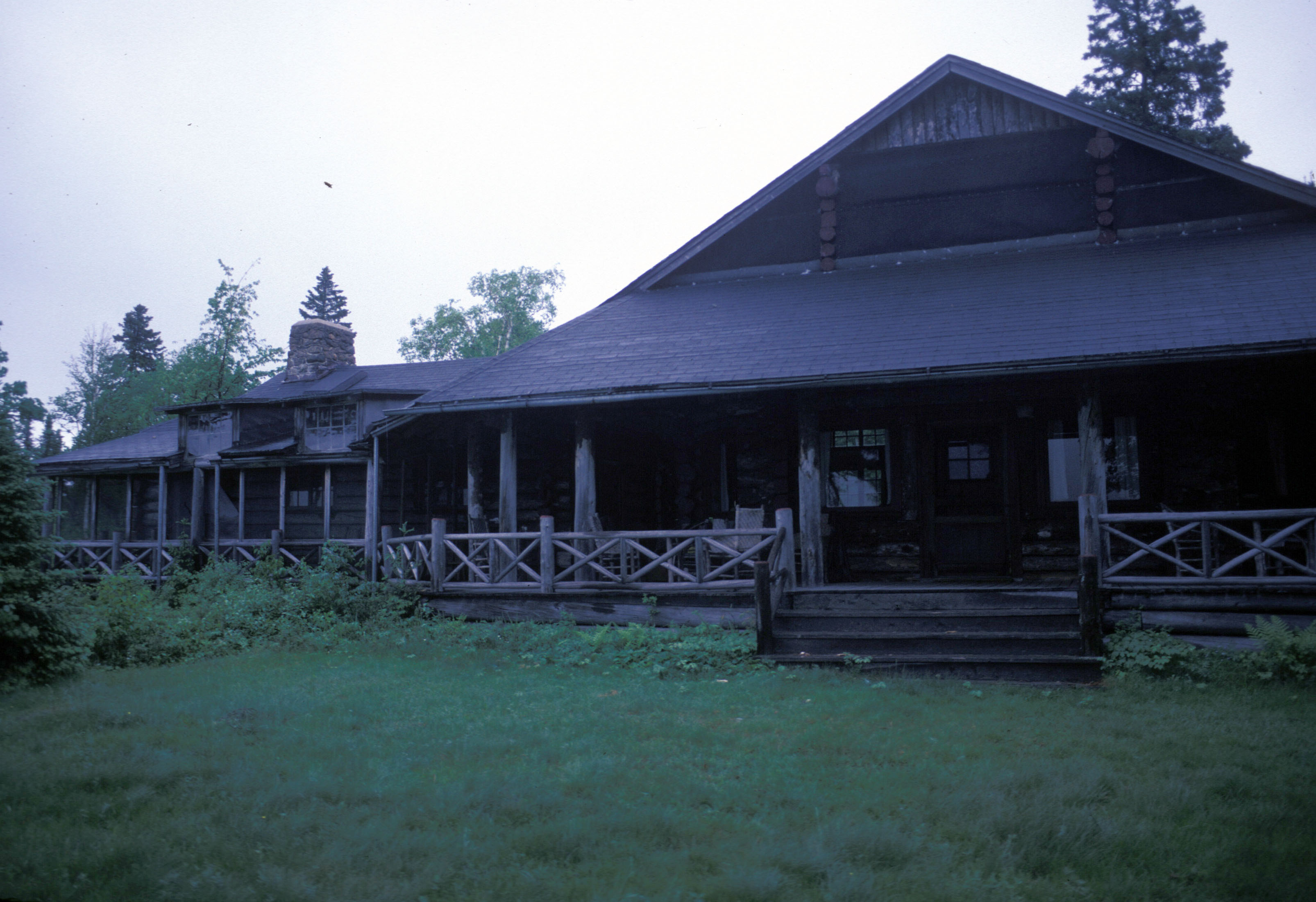 Pratt Camps on Holmes Lake, NB, Canada (IR Walker 1988).